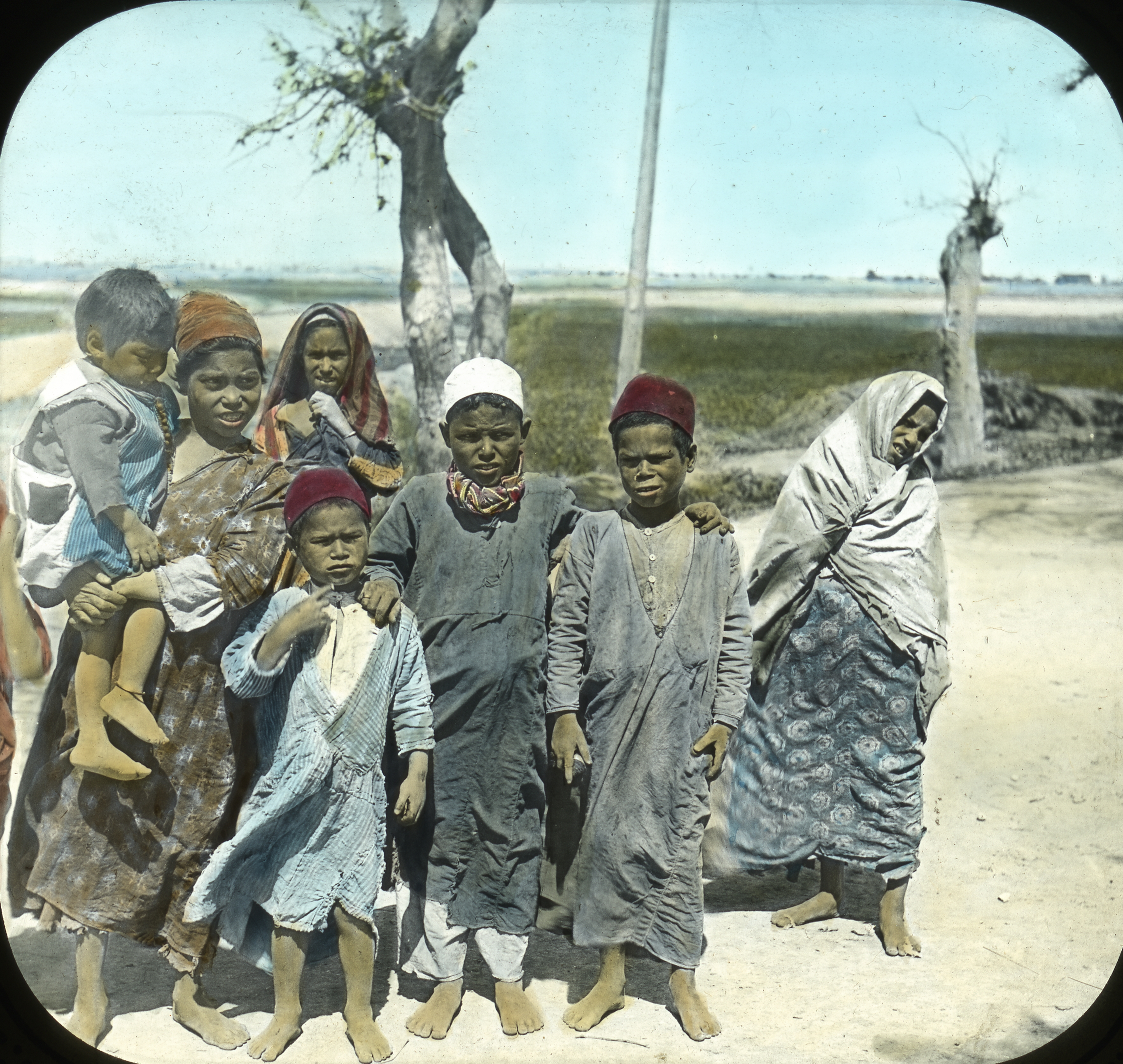 Lantern Slide Collection: Views, Objects: Egypt. General Views\People [selected images]. View 025: Egypt - Egyptian Children, Ramleh., n.d., T. H. McAllister, Manufacturing Optician. 49 Nassau Street, New York. Hooper. Brooklyn Museum Archives (S10|08 General Views_People, image 9768). Help us map this image by using Suggestify to suggest a location for it.